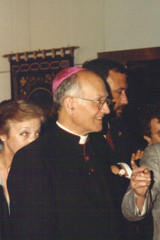 Elías Yanes Álvarez. Archbishop of Zaragoza.1988